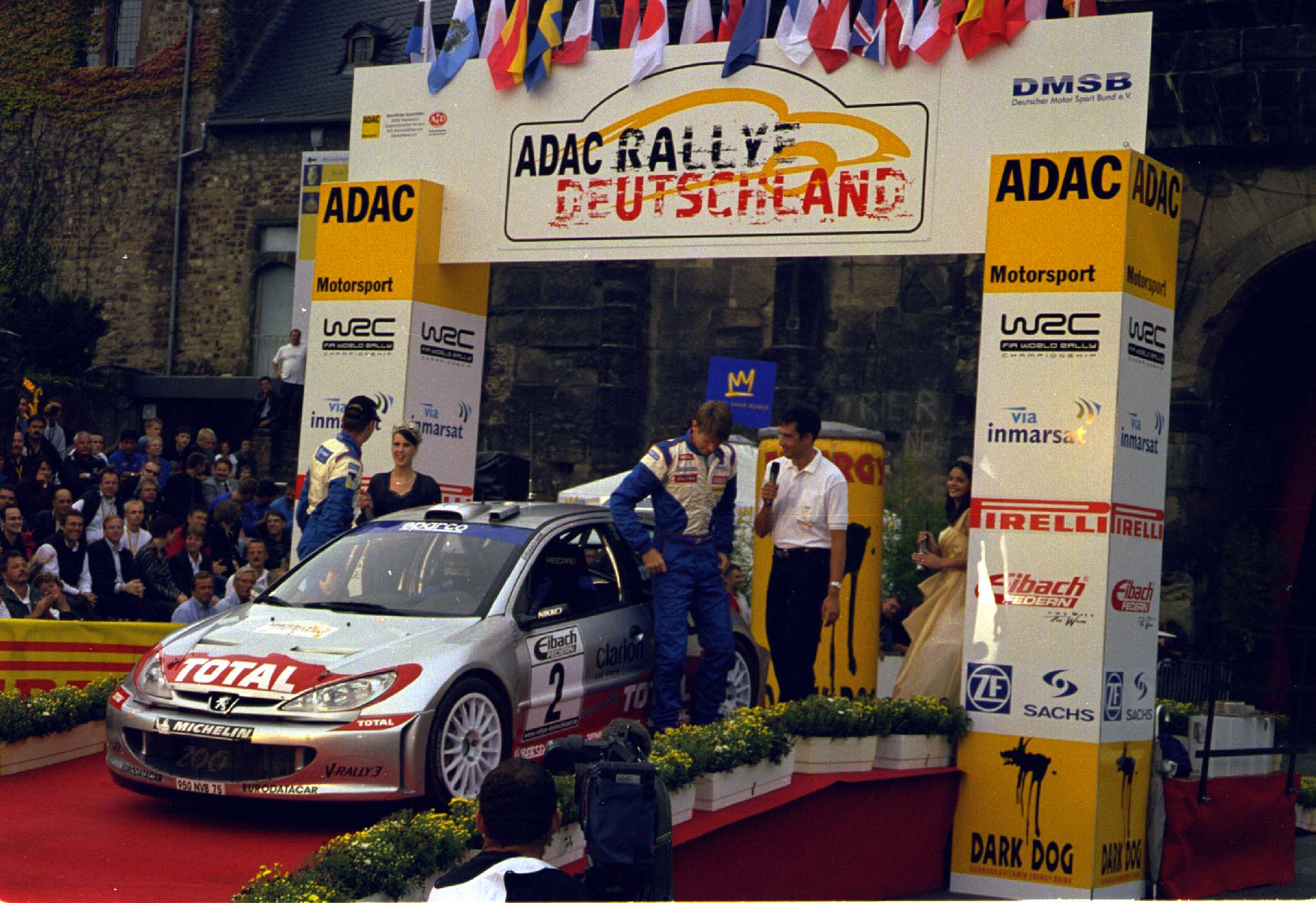 Marcus Grönholm in Peugeot 206 WRC at the start of ADAC Rally Deutschland 2002 in Trier.